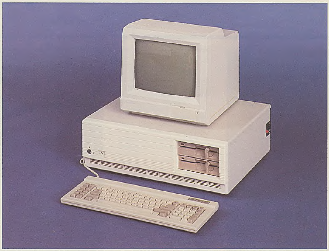 Elwro 801 AT